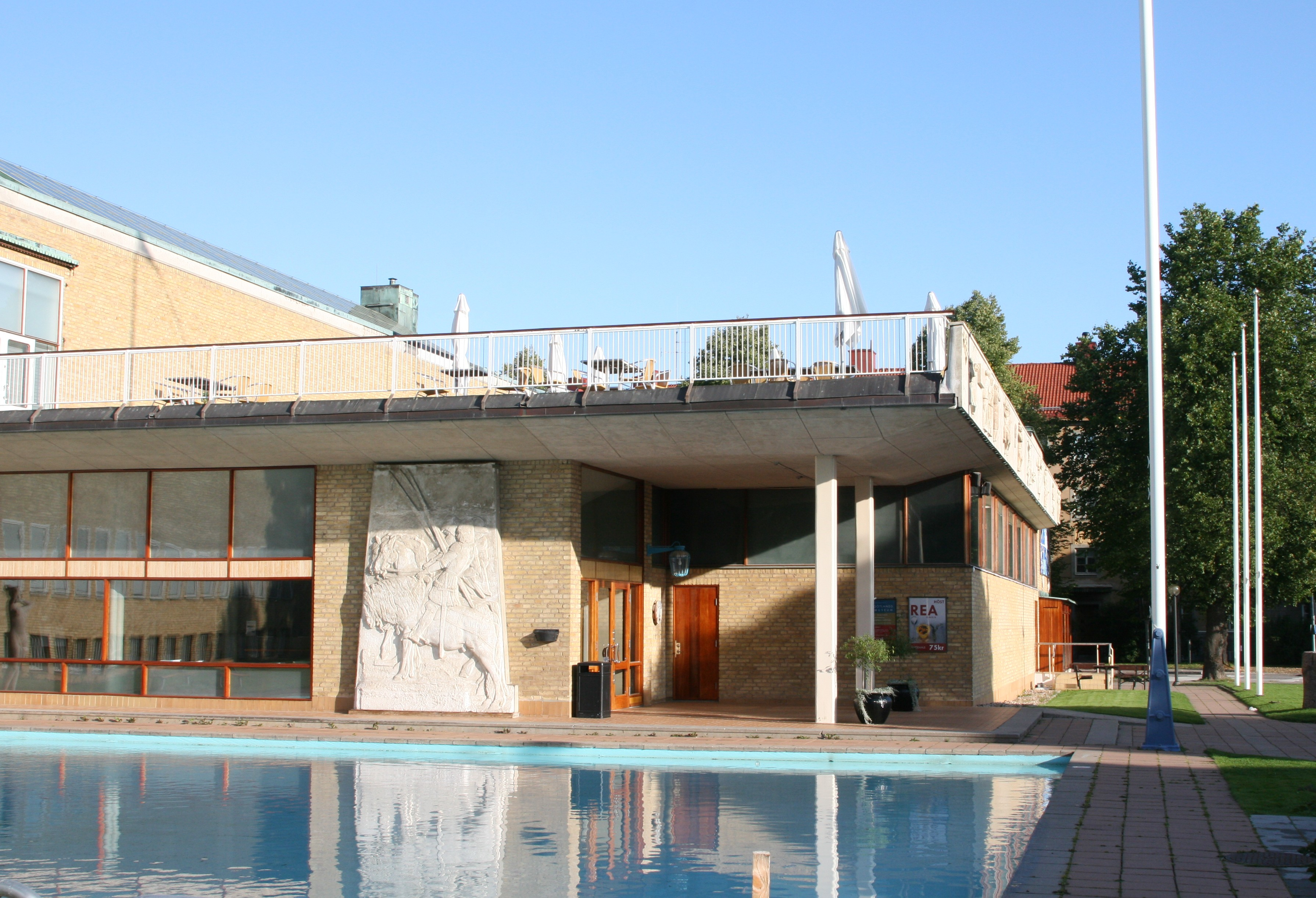 Östergötlands länsmuseum (county museum) in central Linköping, Sweden. The main entrance, seen from the south.